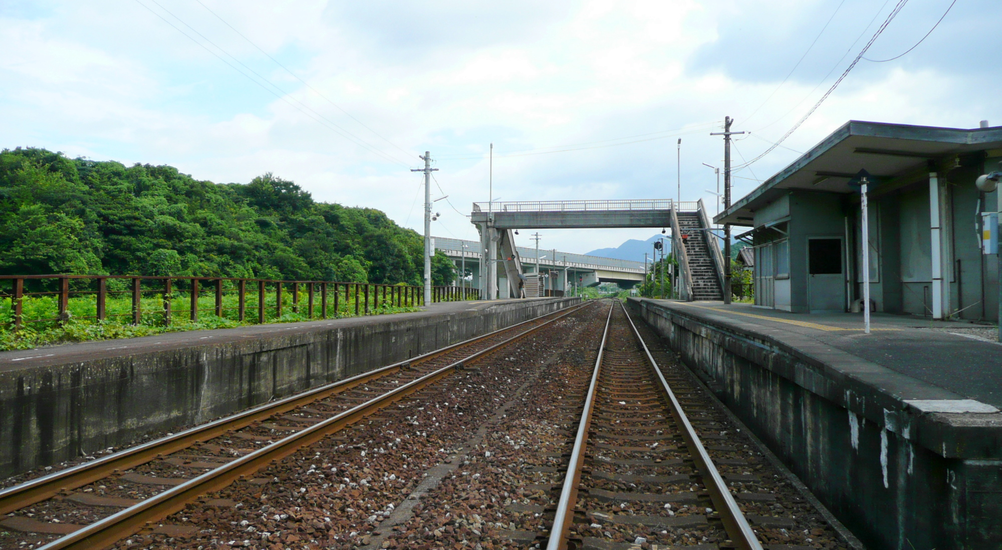 Shii Station platform, Hita-Hikosan line.